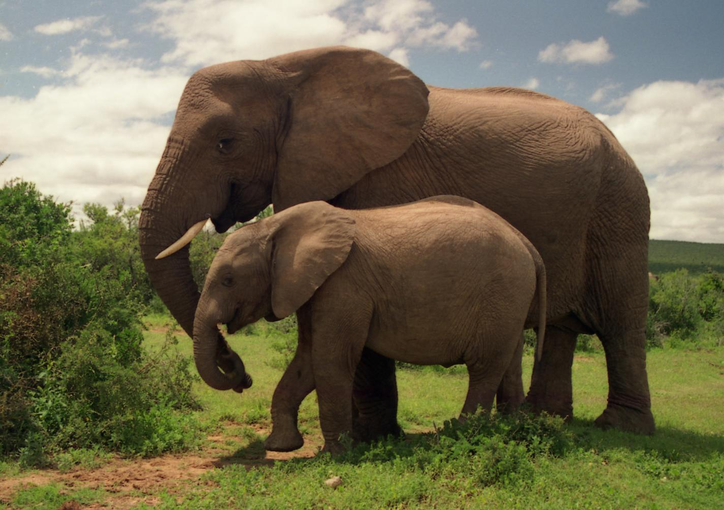 Addo Elephant National Park is in the Eastern Cape Province, 72km by road from Port Elizabeth